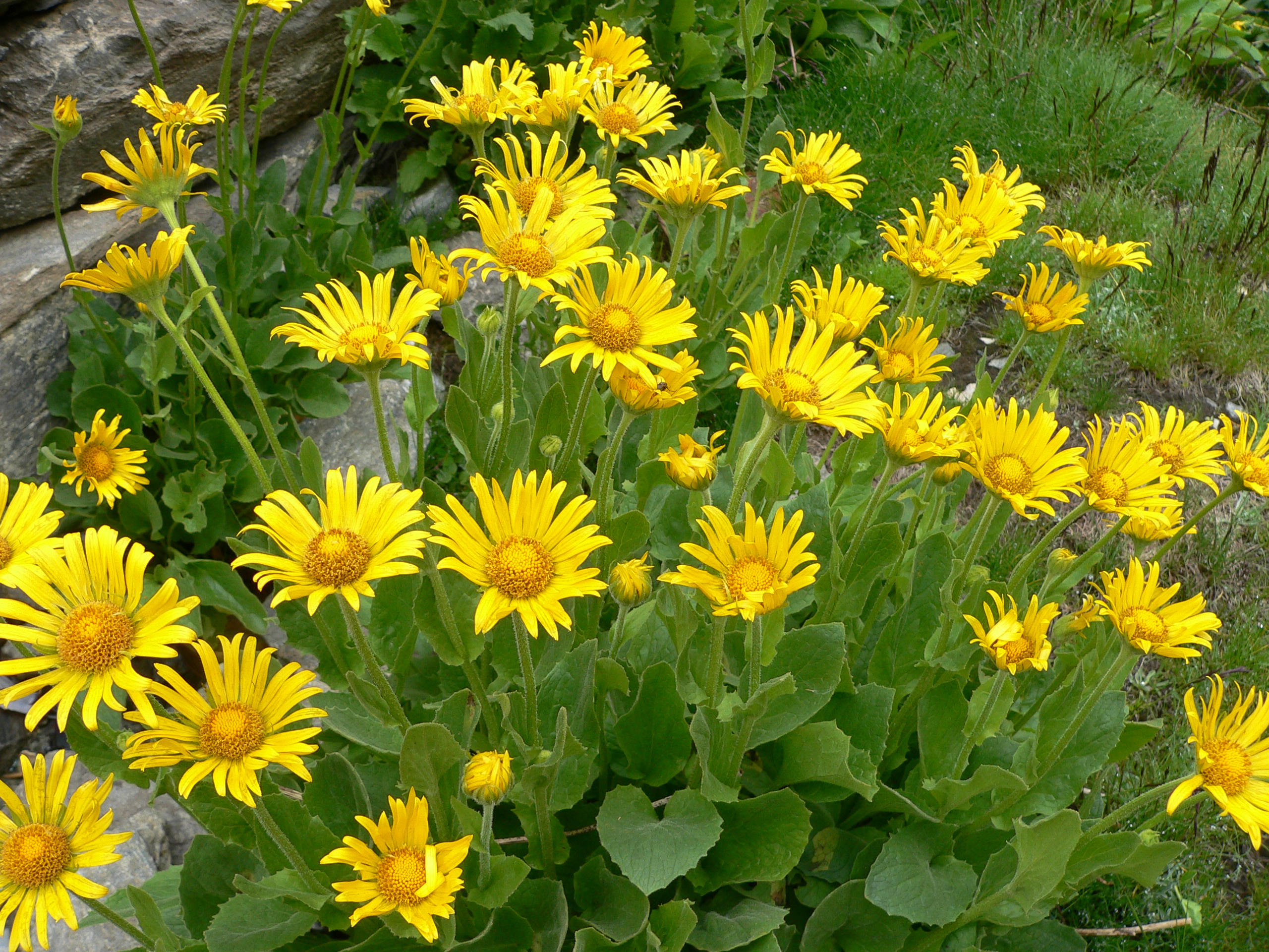 Doronicum grandiflorum Author: Philipendula